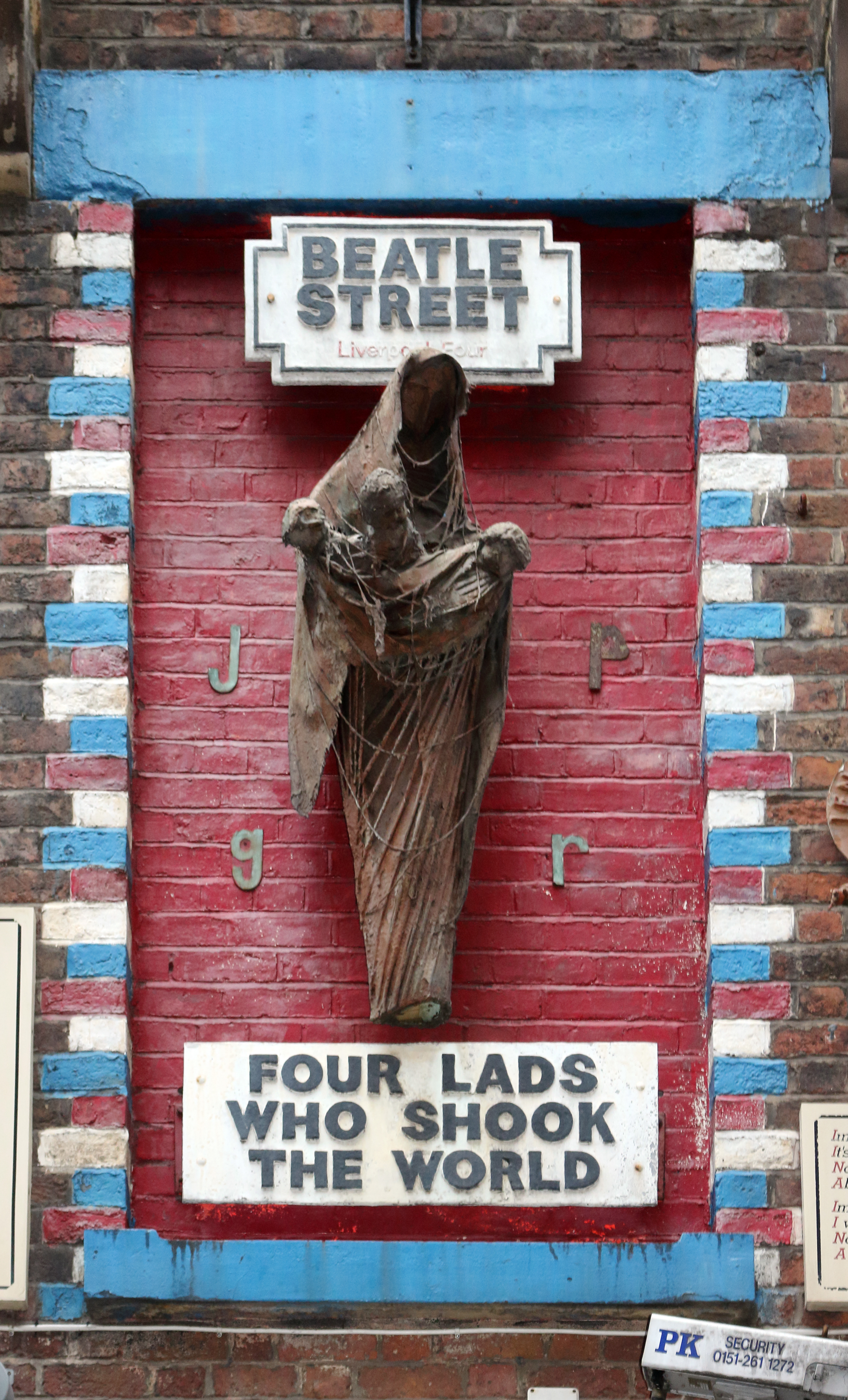 Close view of Arthur Dooley sculpture on the wall of Eric's, Mathew Street, Liverpool.